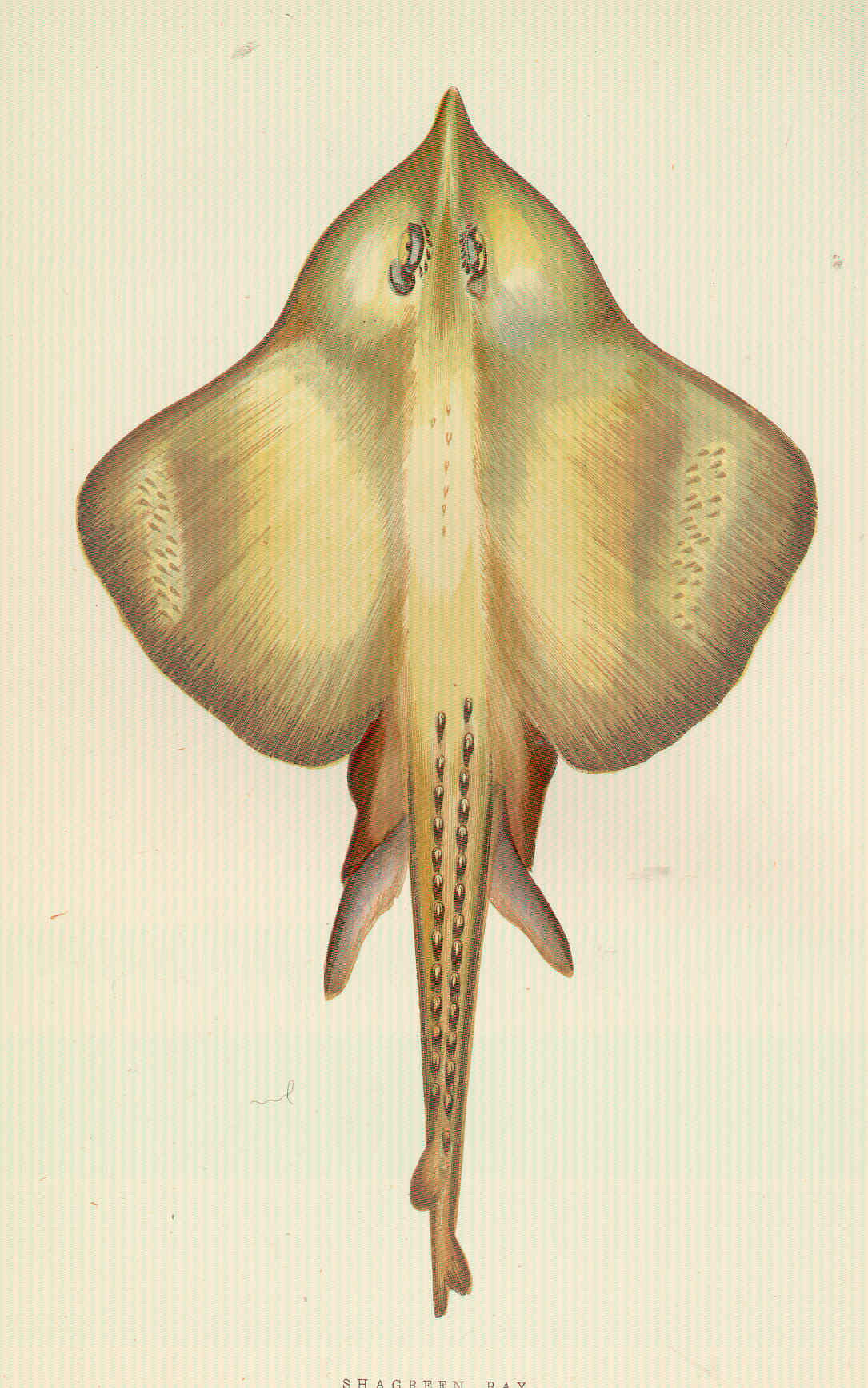 Shagreen Ray Rough Flapper French Ray Dun Cow Raia aspera mostras Raia fullonica Raia aspera Raia chagrinea Subject: Rays (Fishes) Tag: Fish